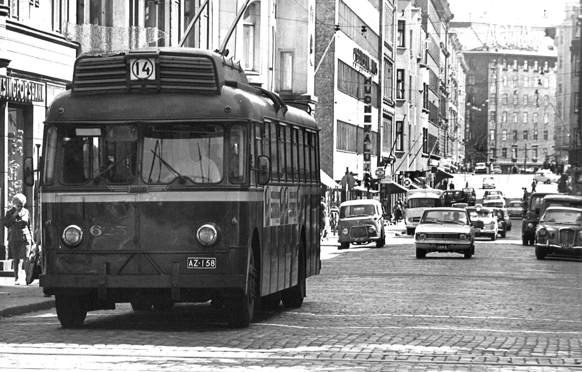 Photograph of trolleybus No. 625 of Helsinki City PTS, on line 14, Fredrikinkatu.